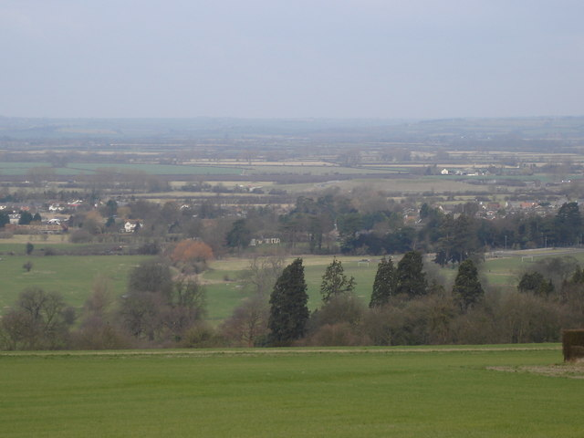 Green Park, from A4011.